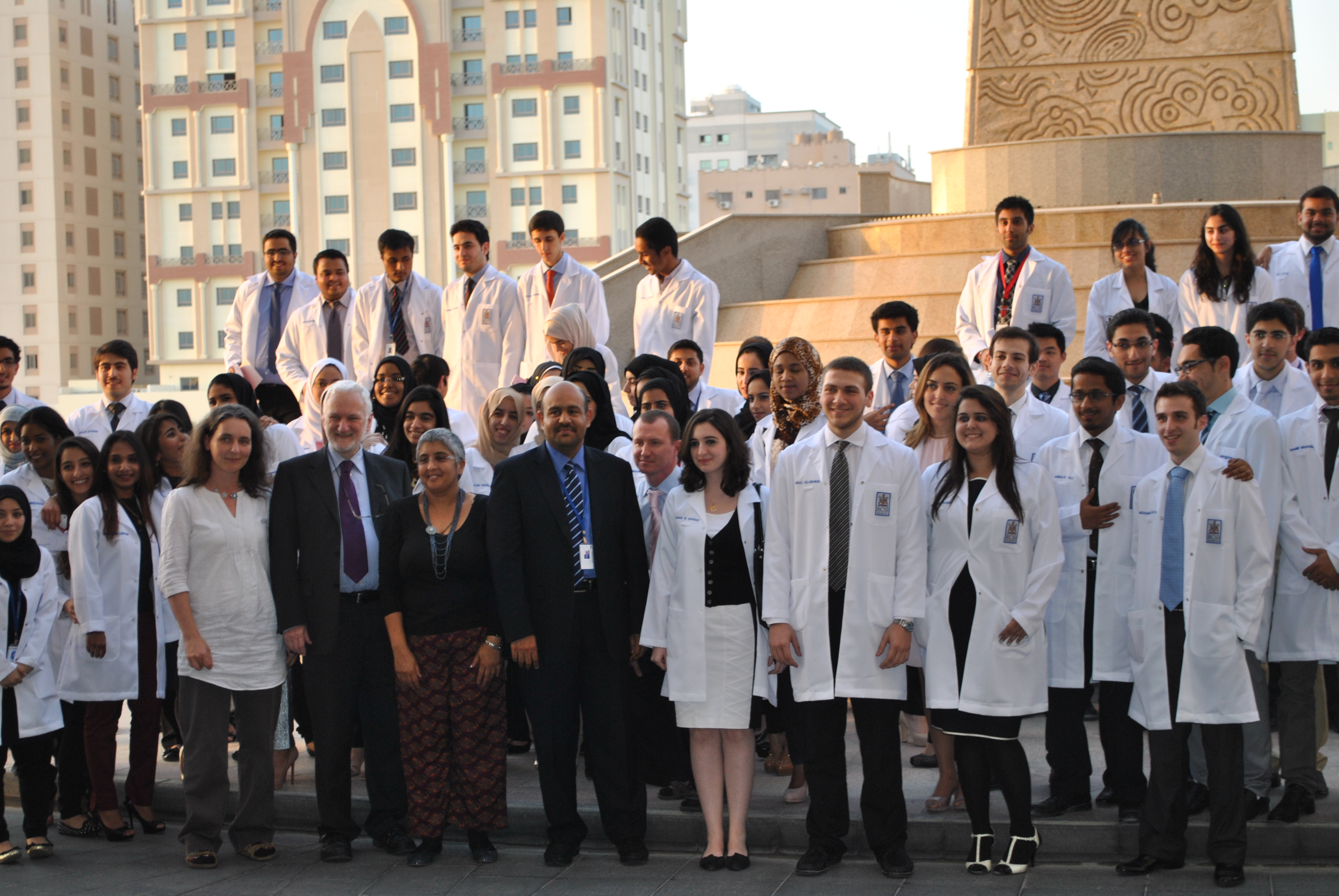 Group picture